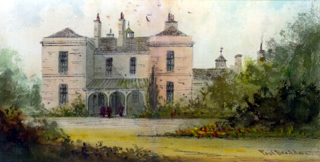 Watercolour painting of Heathfield Hall (aka Heathfield House), Handsworth, England